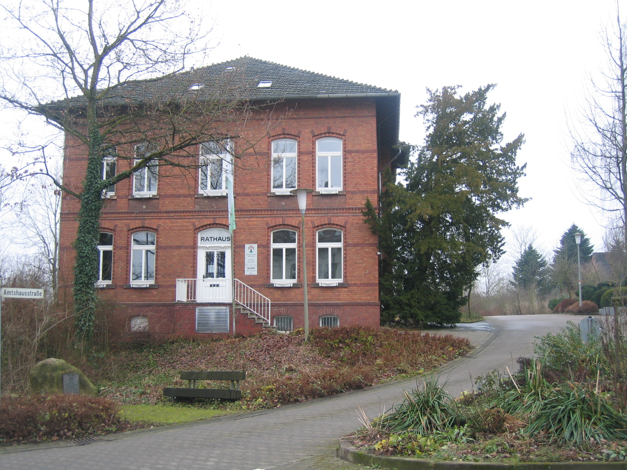 Rödinghausen town hall, Germany